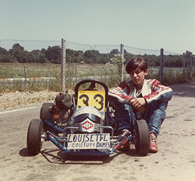 Christophe Bouchut after his first senior national title with Christian Boudon and his company BDN Moteurs in 1980. Two national champion tittles for Bouchut with Boudon, and the path to become a professional race car driver was open by Boudon innovative methods.Jp..baudrand (talk) 18:29, 8 July 2011 (UTC)